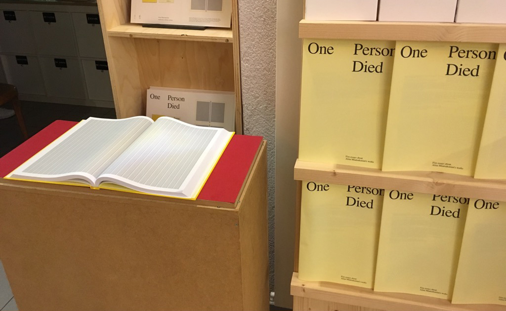 One person died is a publication that follows and documents the thematic work of artist Alina Mnatsakanian on the Armenian Genocide. The publication consists of two books. A 500-page artist’s book in which the phrase “one person died” is repeated 1,500,000 times in reference to the victims of the Armenian genocide. It is the recognition of each person killed during this genocide, a necessary repetition that allows us to visualize the immensity of such a crime. The second volume is a booklet containing texts, accompanied by visual documents, about the corpus of works One Person Died and its origins in the work of Alina Mnatsakanian, each in the original language of the authors, with an English translation next to them. Alina Mnatsakanian is a multimedia artist who lives and works in Neuchâtel, Switzerland. She has a bachelor’s degree in fine arts from the University of Paris 8 and a master’s degree from the California State University of Los Angeles. She has shown her work in the United Stated, Canada, Europe, Armenia and Korea. She has received grants from the Swiss federal office of culture, the Swiss Artists in Labs and the California Council for the Humanities. She has been artist-in- residence in the Artificial Intelligence Laboratory IDSIA in Lugano, at the Grand Central Art Center in California and the Art and Cultural Studies Laboratory (ACSL) Yerevan, Armenia.